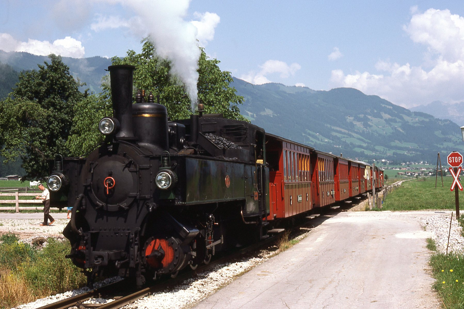 Zillertalbahn tourist train with engine No 3.